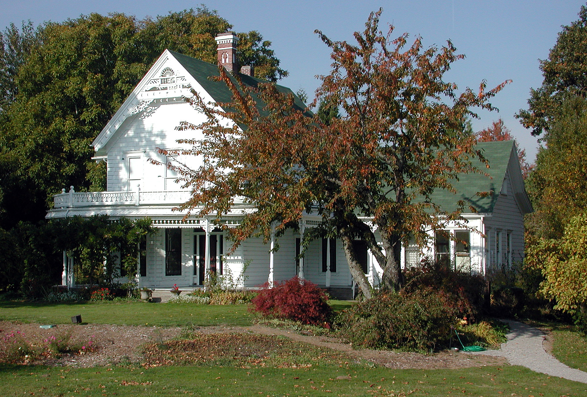 Jacob Zimmerman House, 17111 Northeast Sandy Boulevard, in Gresham, Oregon. The house is on the National Register of Historic Places.